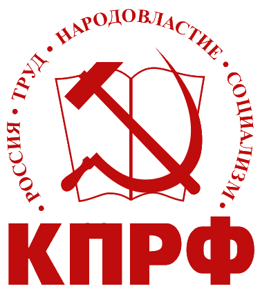 Logo of the Communist Party of the Russian Federation CPRF